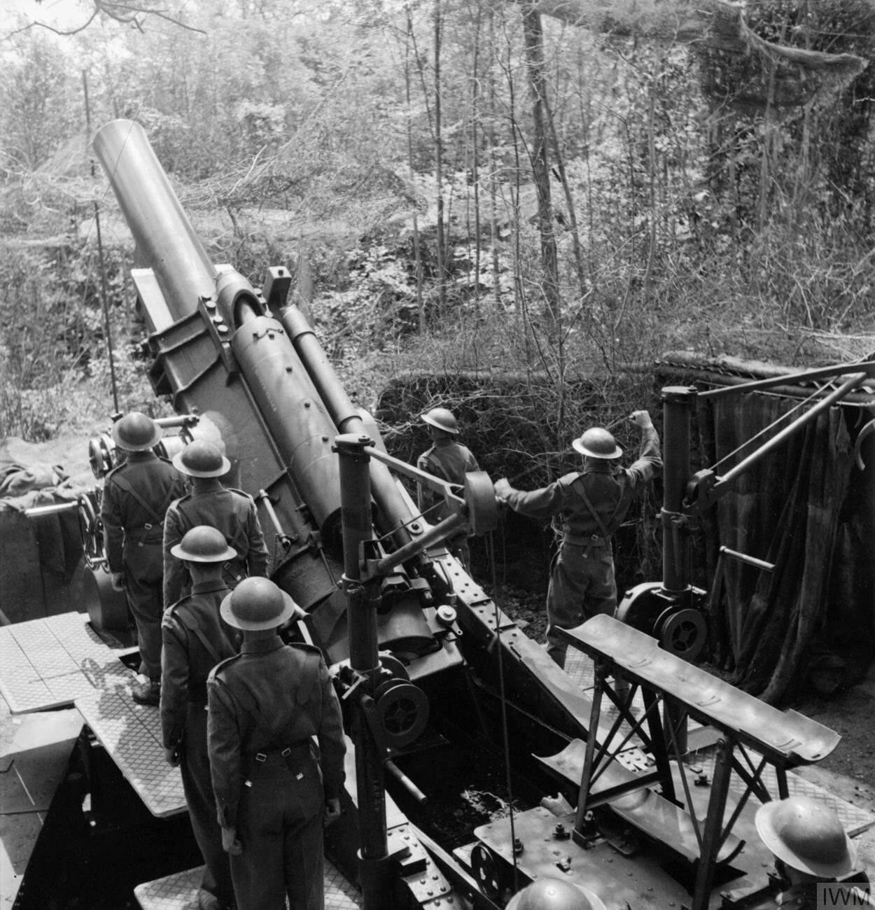 NEWFOUNDLAND TROOPS IN ENGLAND: ARTILLERY TRAINING, 1942 View of one of the 12 inch howitzers Mk IV manned by members of the Newfoundland Heavy Artillery Regiments in England. The tray on the right conveys the 750lb shells into the breech, as they are too heavy to be man-handled. They are raised into place by a crane. Comment : The cycinder driving the power rammer, introduced with the Mk II carriage, is visible on the right of the recoil cylinder above the barrel.